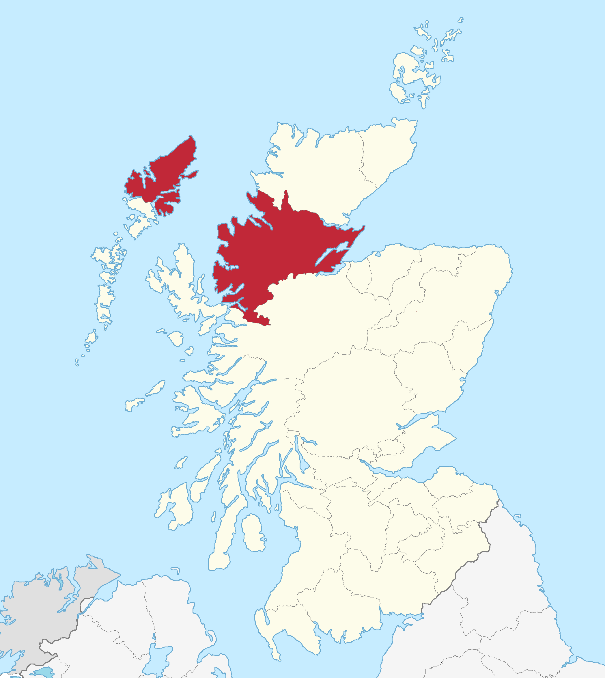 map showing Ross and Cromarty